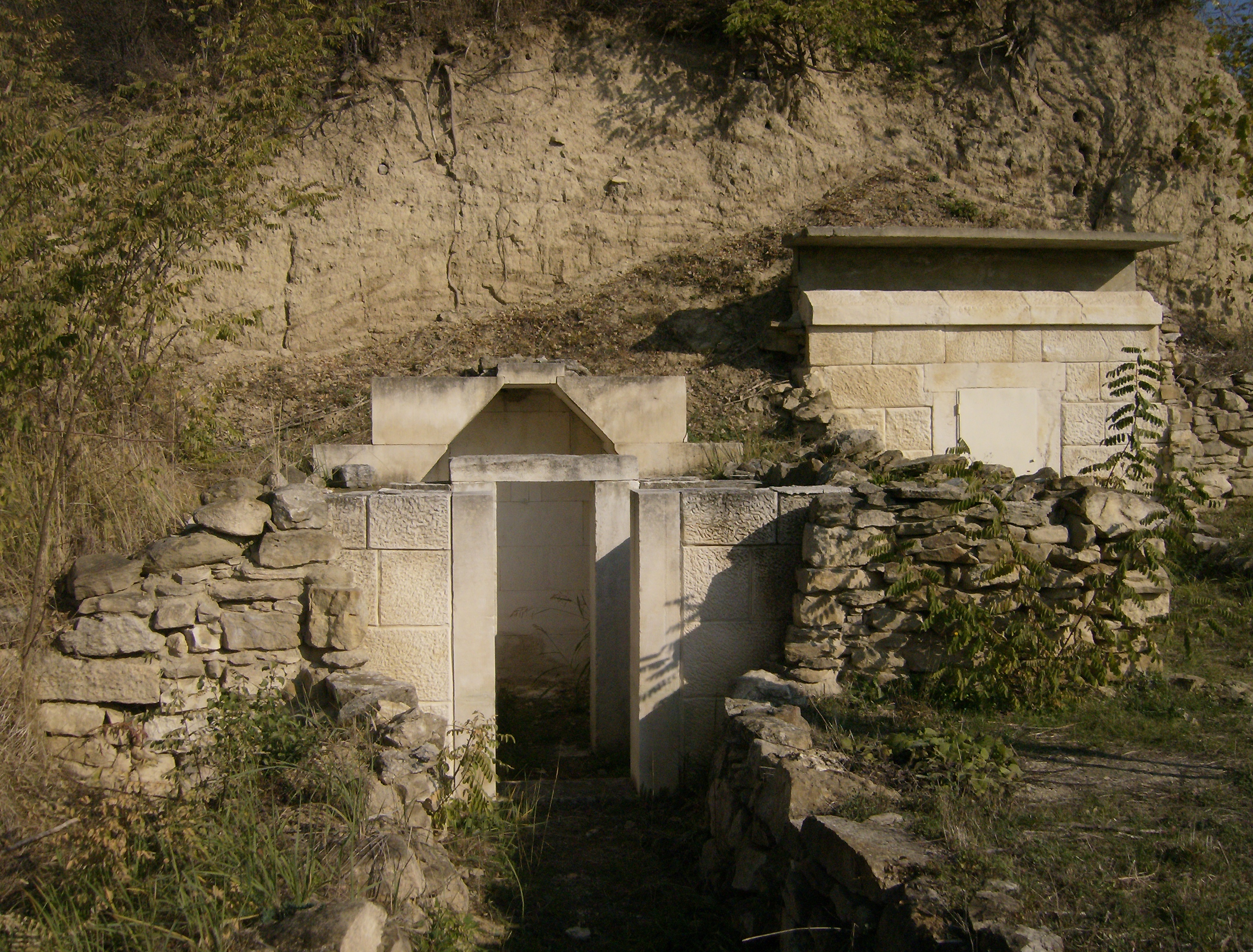 Thracian tomb near Ivanski